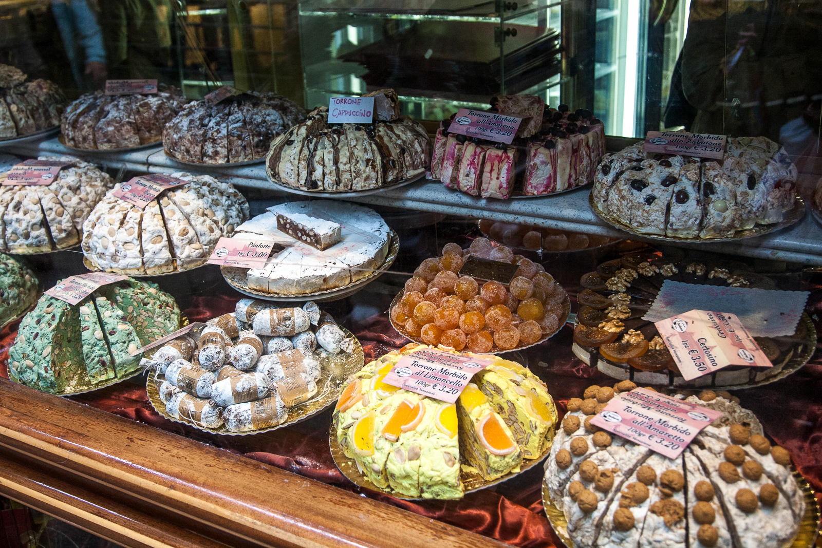 Soft nougat cakes, flavor assorted. Venice - Italy